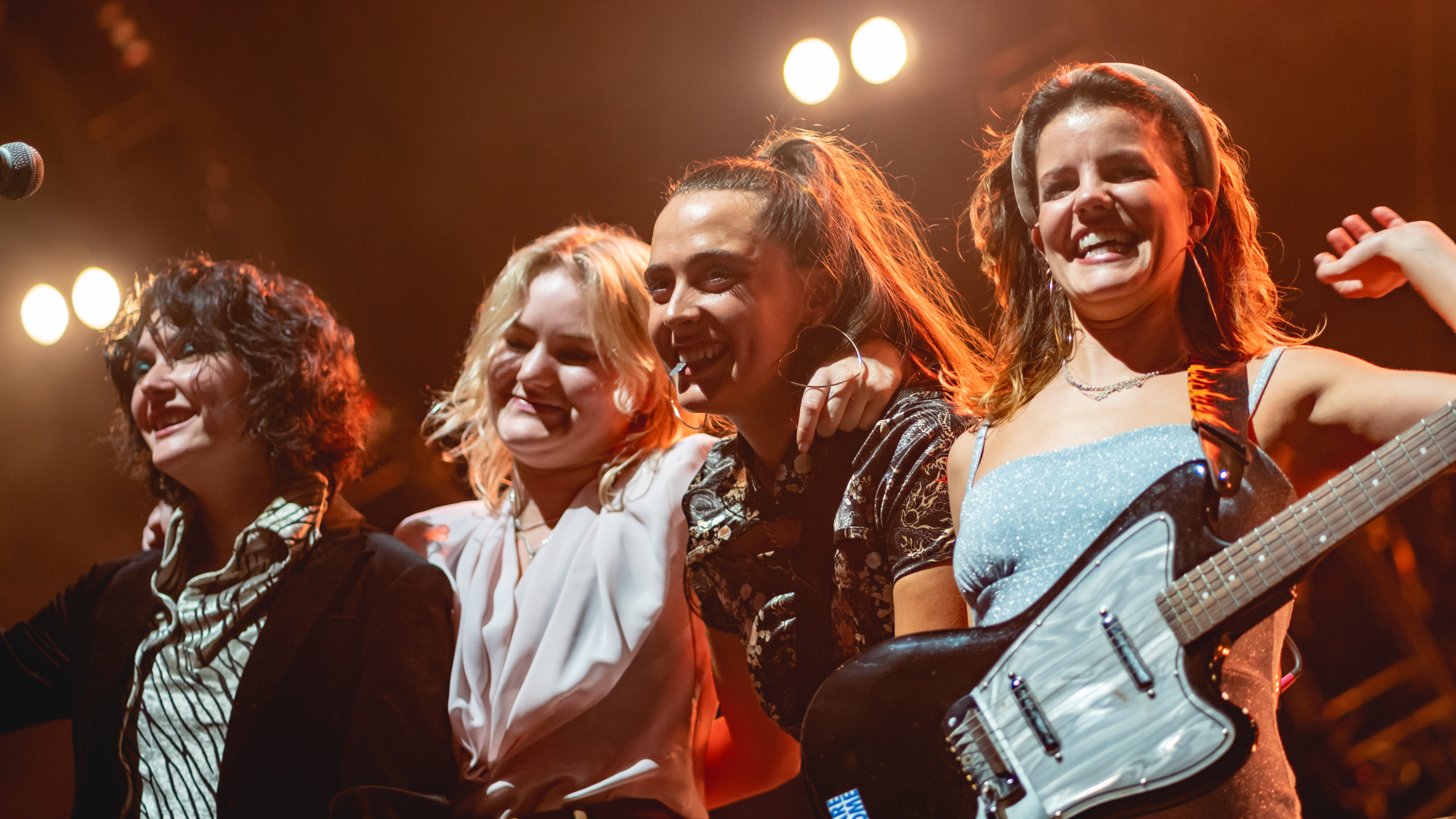 Hinds performing with The Strokes in Brooklyn